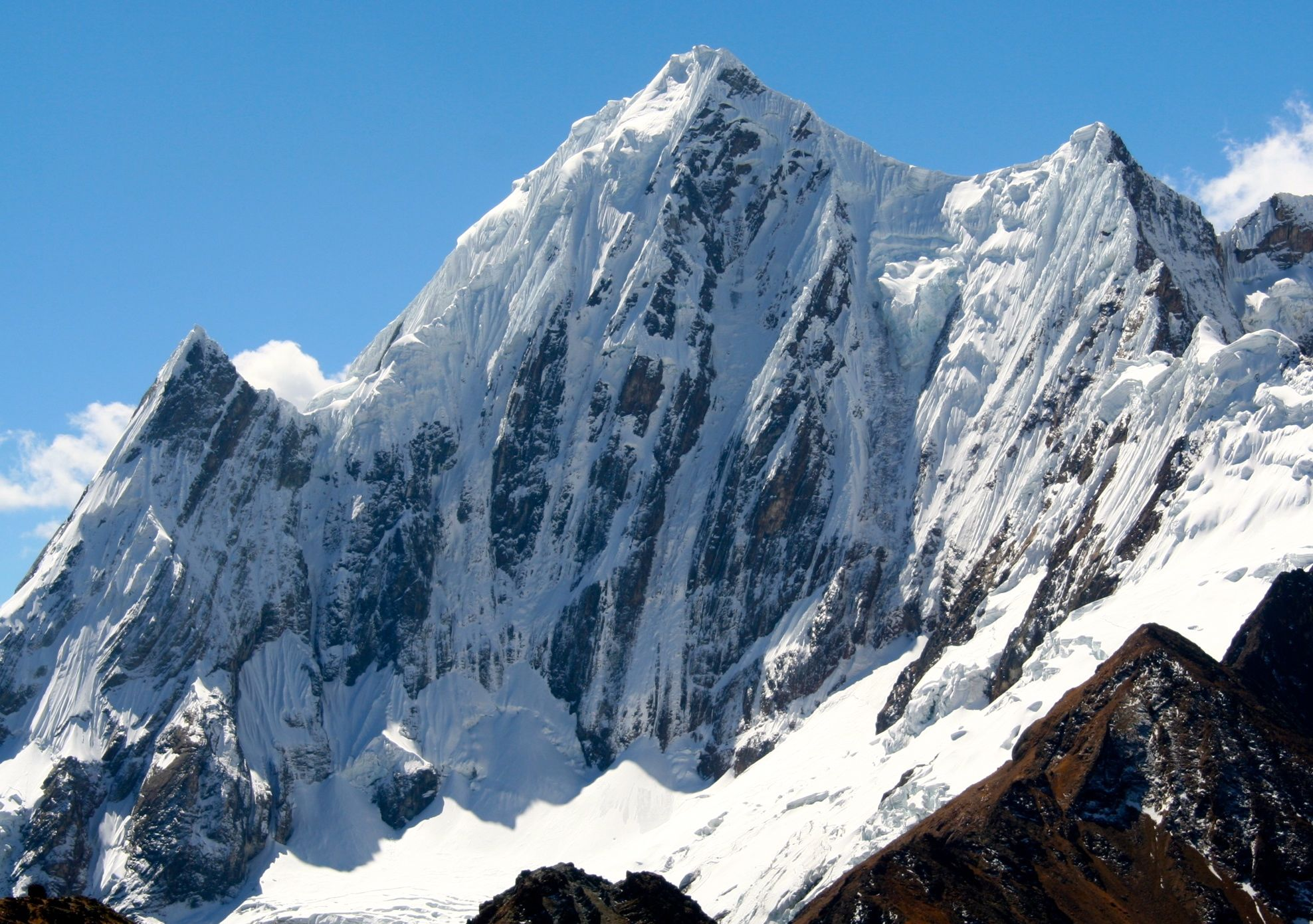 The south face of Rasac, Cordillera Huayhuash